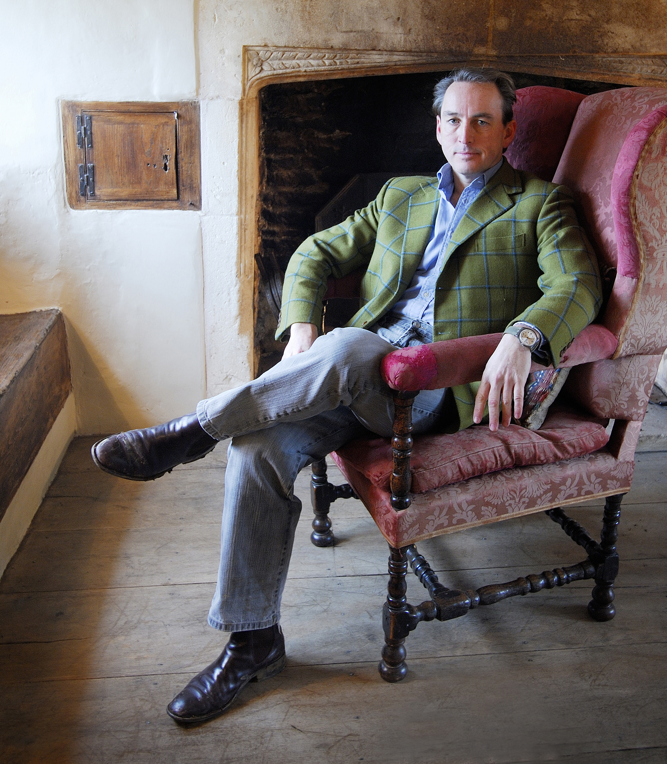 Portrait of Philip Mould